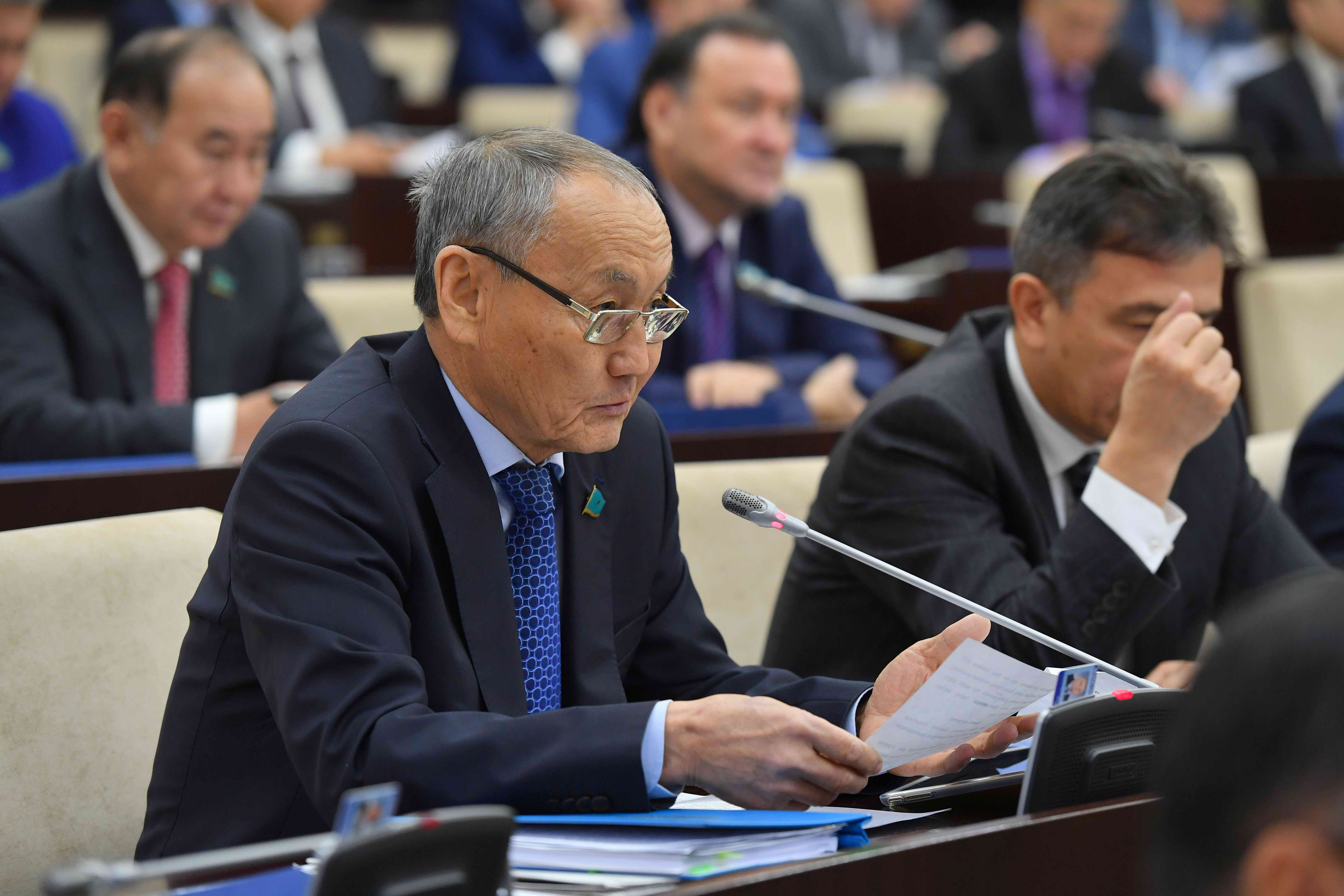 Bekmyrza Yelamanov